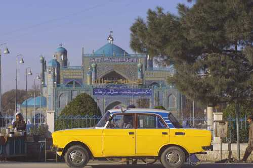 A car drives past the Blue Mosque in Mazari Sharif, Afghanistan. Photo by Pfc. Jeremy W. Guthrie, 314th Press Camp Headquarters, USA, March 2002.